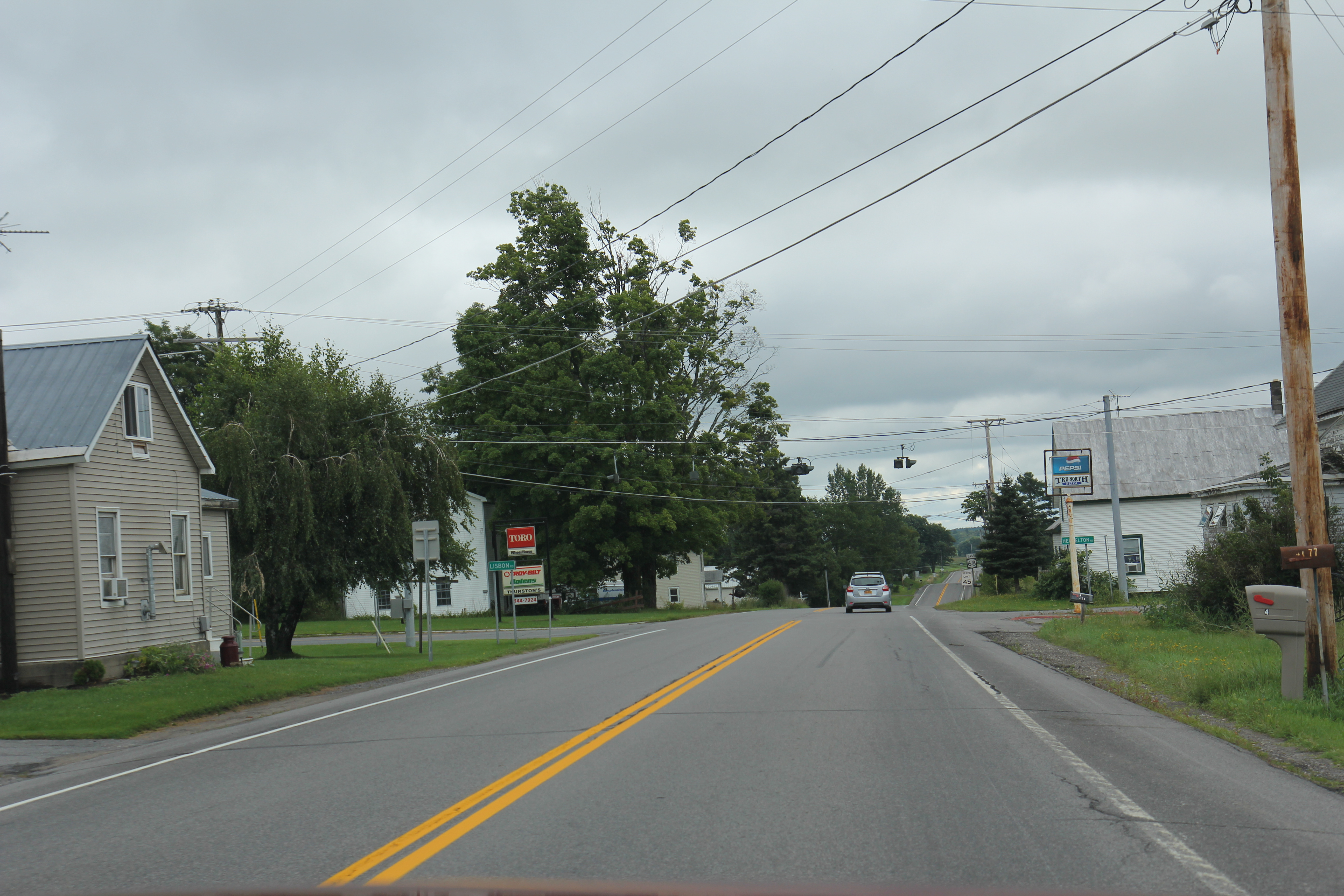 Downtown Flackville, NY on NY68.